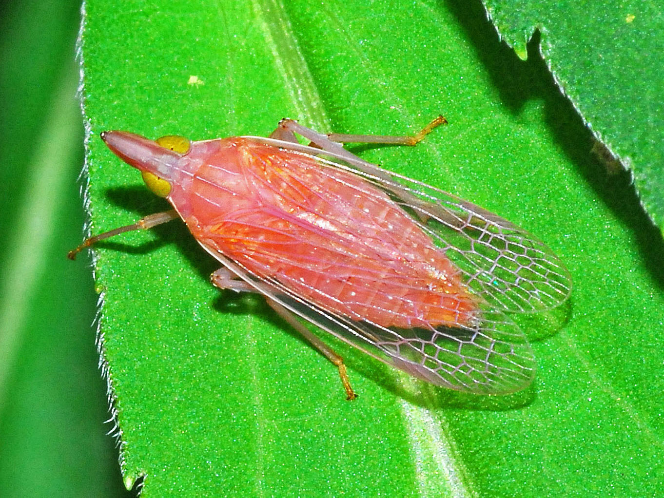 Dictyophara europaea var. rosea. Arquata, Turin, Italy